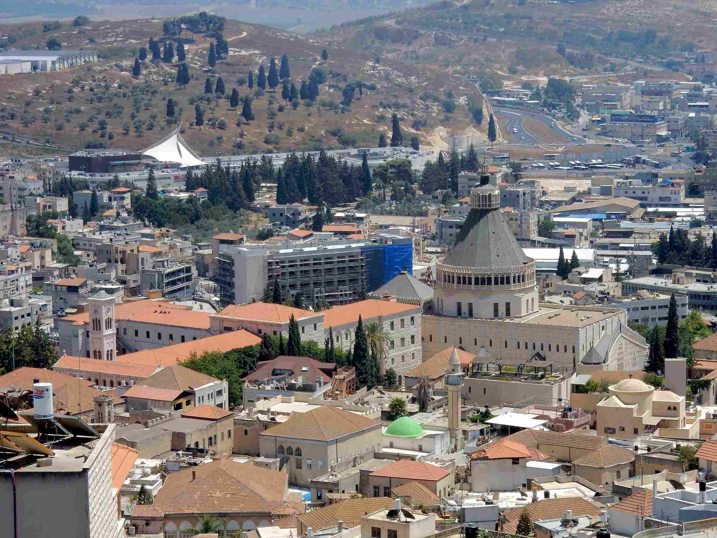 View of the city of Nazareth with ist Church of Annunciation in the center. Blick auf die Stadt Nazareth mit der Verkündigungsbasilika in der Mitte. You're welcome to use this picture free of charge, as long as you follow the license terms. As a matter of courtesy a link (dofollow links are welcome!) to is much appreciated. Thank you! ————————–—–—–—–—–—–—–—–—–—–—–—–—–—–—– Du kannst dieses Bild gemäß der Lizenzbestimmungen unentgeltlich nutzen. Über eine Verlinkung (dofollow am liebsten) auf freuen wir uns. Danke!